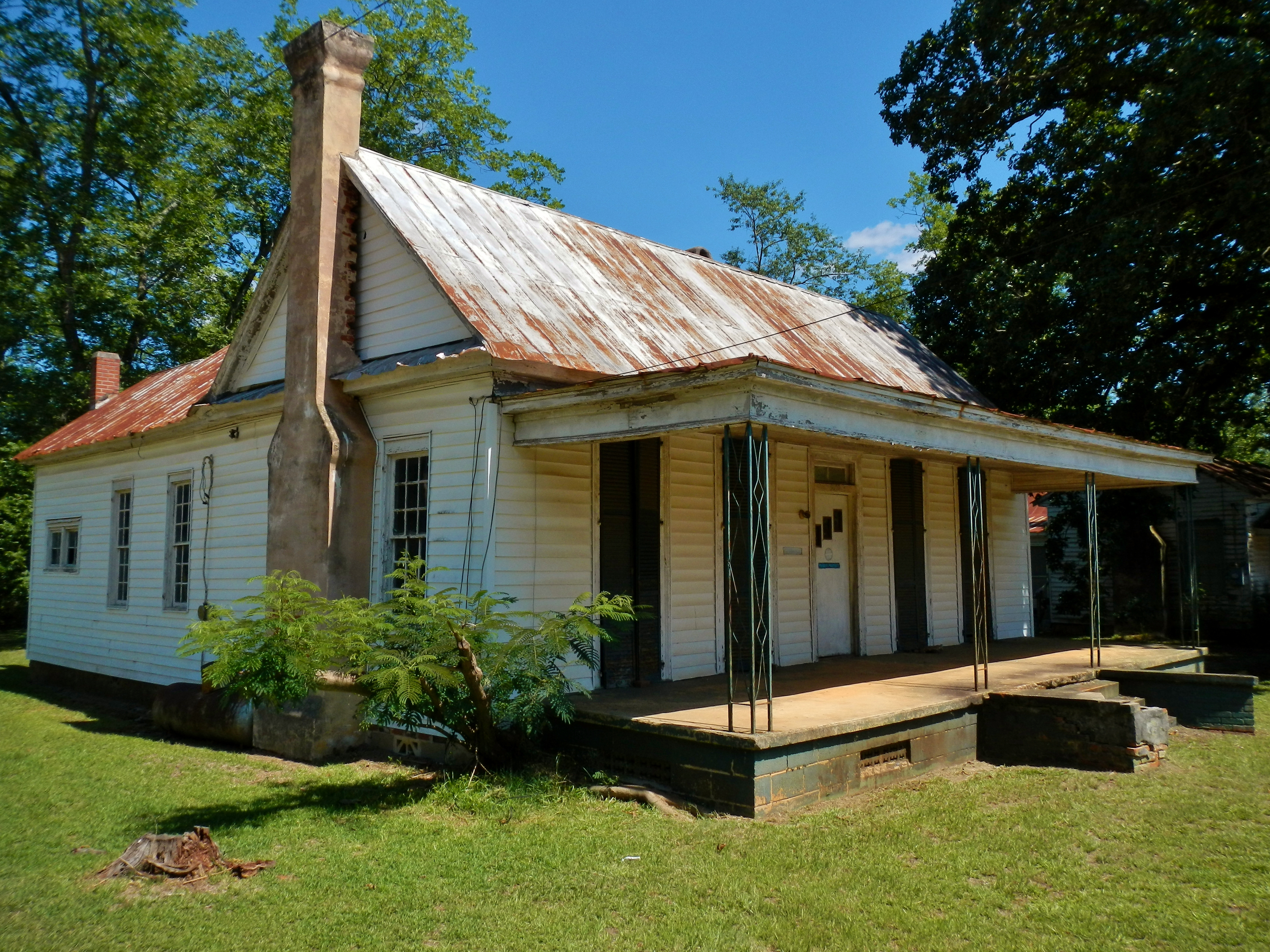 This is a photo of the Cuthbert, GA birth home of jazz pianist and big band leader, Fletcher Henderson.